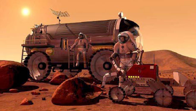 Manned mission to Mars : Pressurized-rover (NASA Human Exploration of Mars Design Reference Architecture 5.0) fev 2009